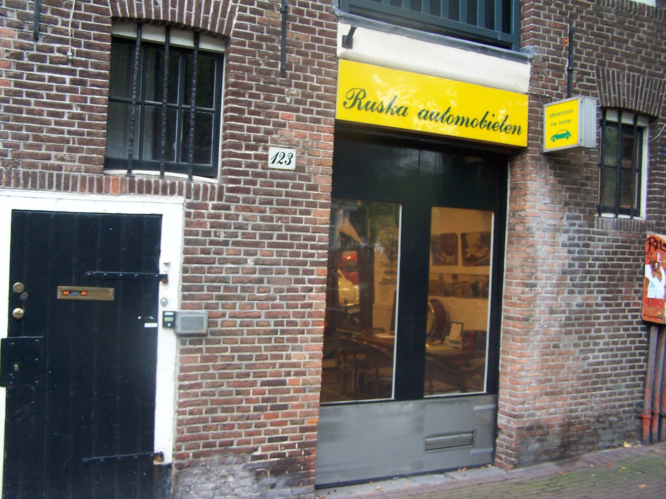 Lauriergracht 123